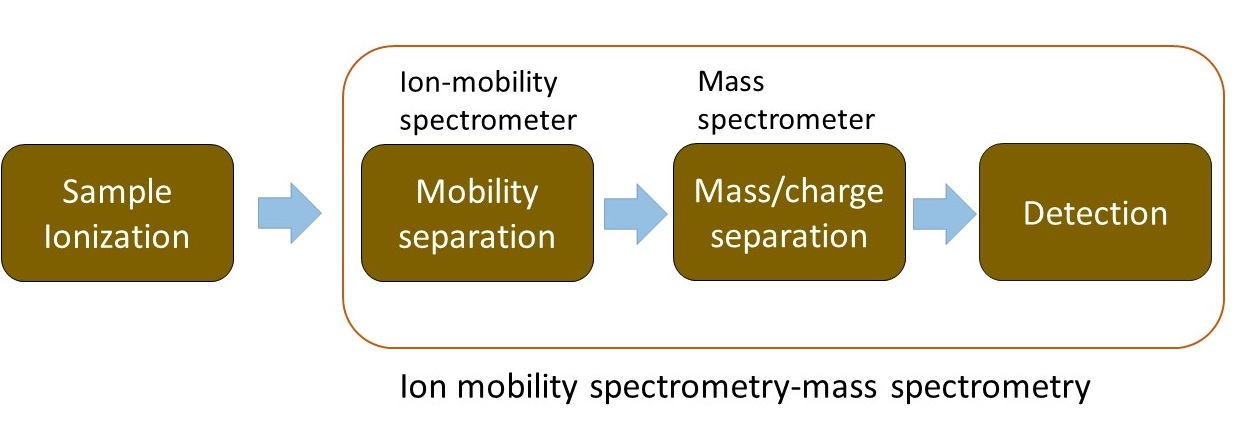 Different regions in an ion mobility spectrometry mass spectrometer